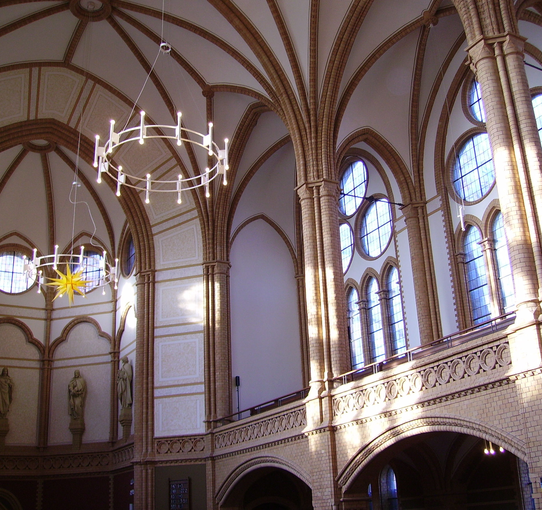 church in Ludwigshafen, Germany